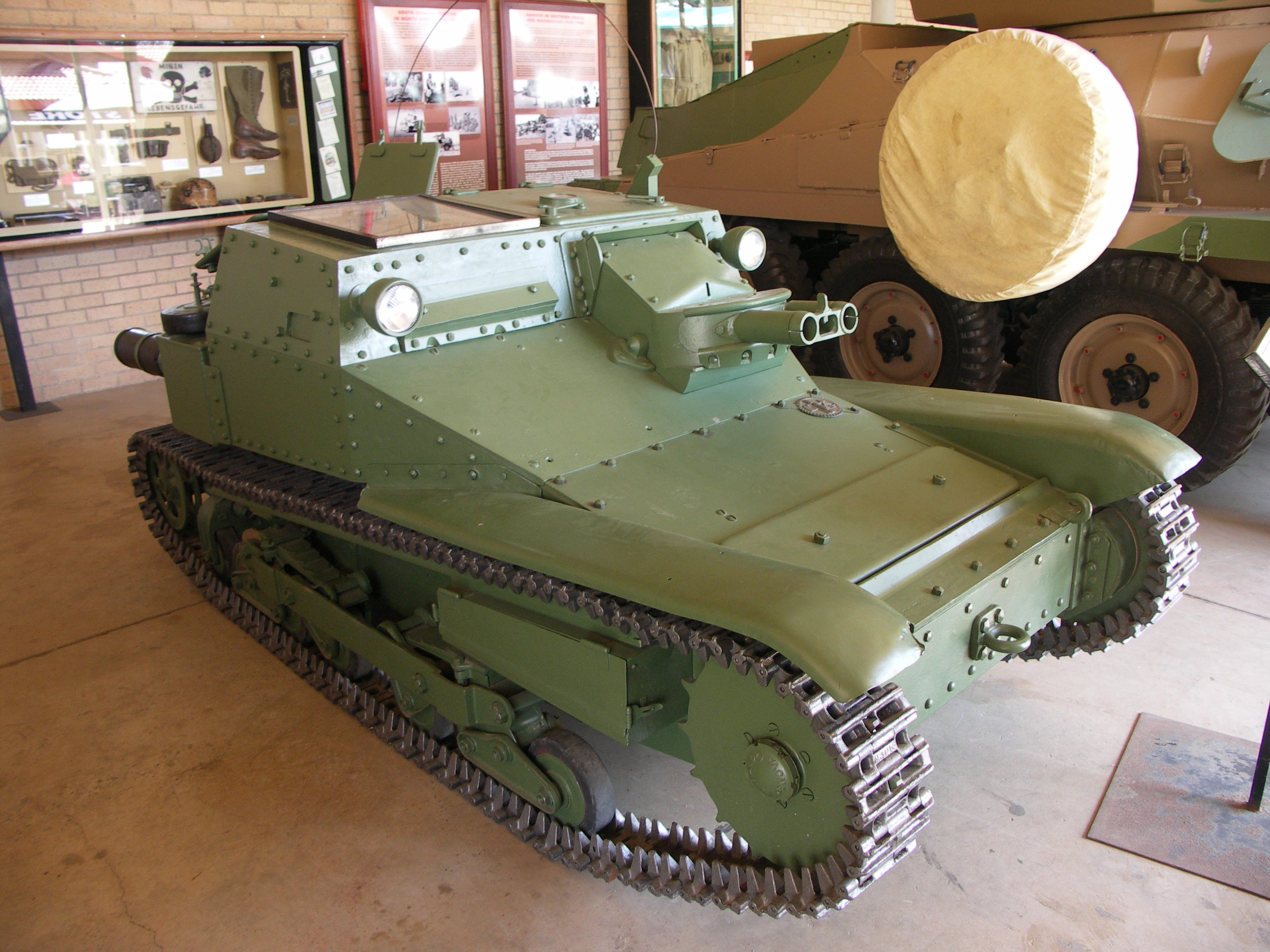 An Italian Carro Legerro 3/35 (L3/35) Light Tank Photo taken at the South African Museum of Military History